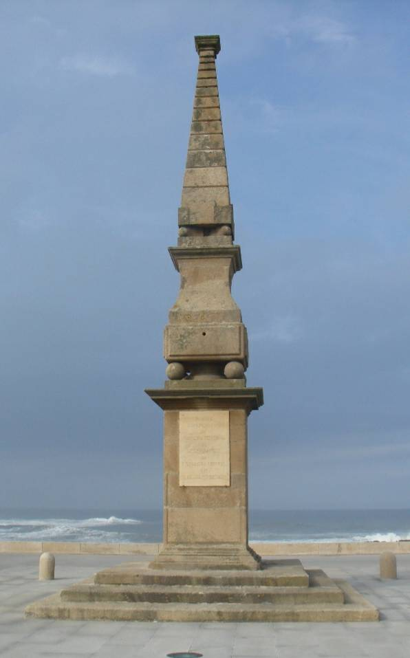 Liberais Monument in Vila do Conde, Portugal. Note: this is the monument in Vila do Conde. The actual landing was 20 or so km further south in Matosinhos, praia da Memória (Pampelido), and is marked by a completely different monument.